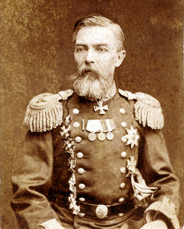 Russian admiral Pavel Zelenoy (1882-1885), governor of Taganrog and Odessa